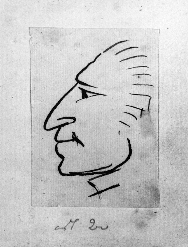 General James Johnston (1721-1797) by George Townshend, 4th Viscount and 1st Marquess Townshend pen and ink, 1751-1758 NPG 4855(6) George Townshend, 1st Marquess Townshend